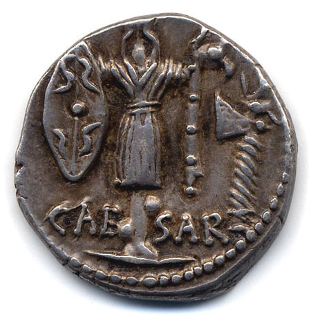 An ancient Roman silver denarius struck between 48-47 B.C. commemorating Julius Caesar's victory in the Gallic Wars. The coin depicts a trophy with a Gallic shield, carnyx, and axe above the name of "CAESAR".